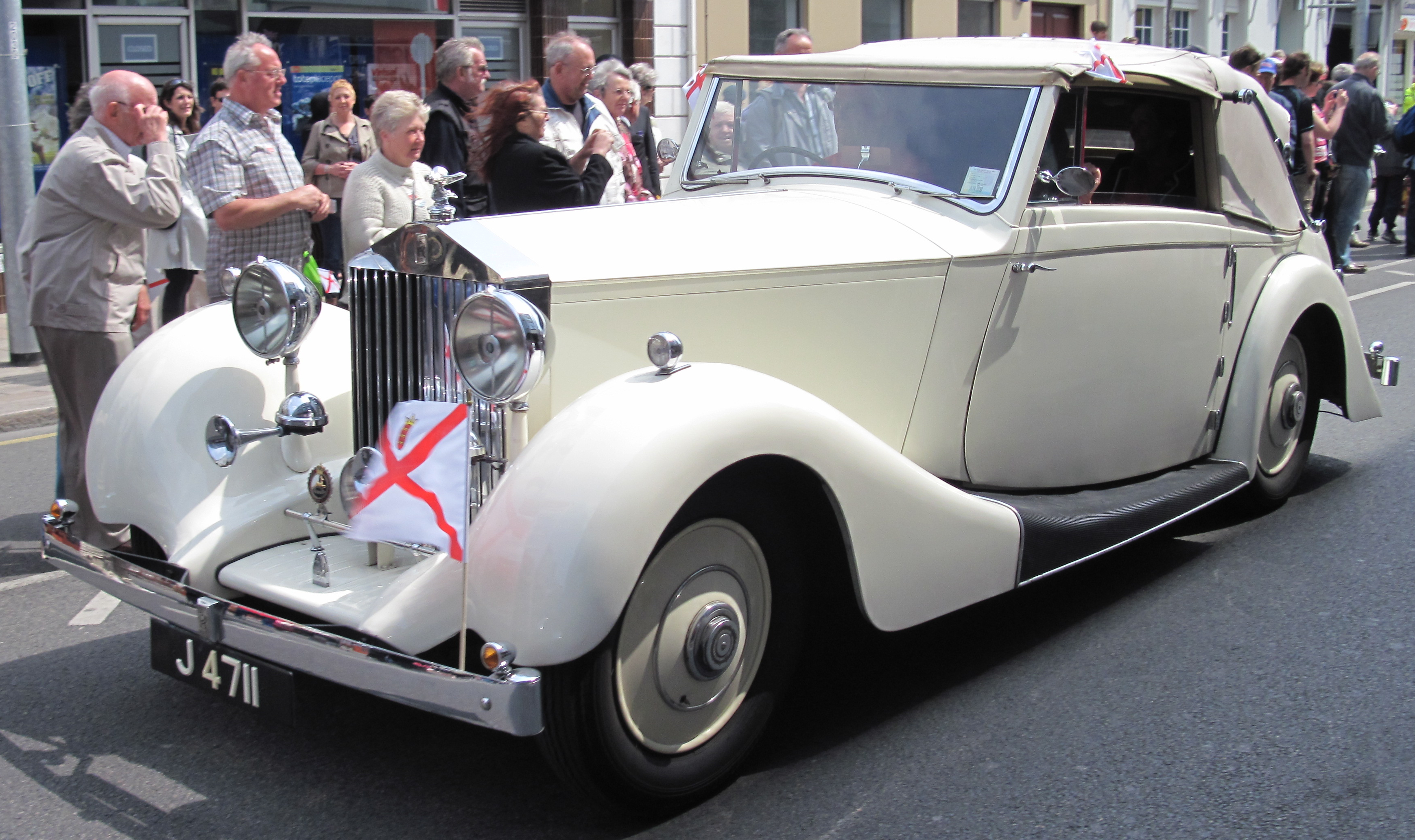 1930 Rolls Royce 20/25 (GTR40) at Liberation Day celebrations, 9 May 2010, Jersey. This car was built as a Gurney Nutting Weymann Fixed Head Coupé and rebodied by Southern (Coachcraft) as a Drophead Coupé in 1938.